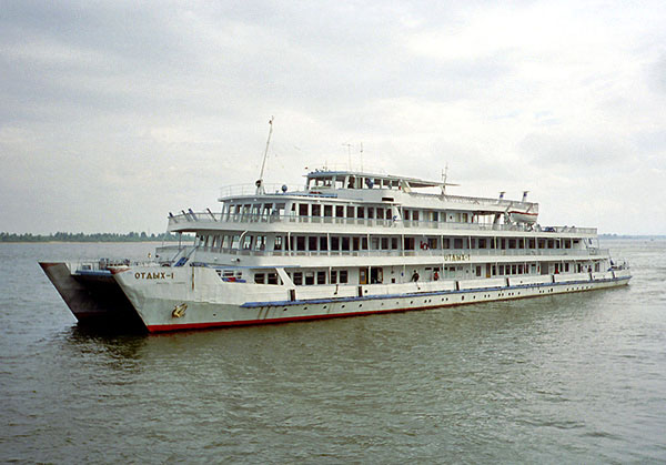 "OTDYKH-1" on Volga river in Nizhniy Novgorod (1999). Project R-80